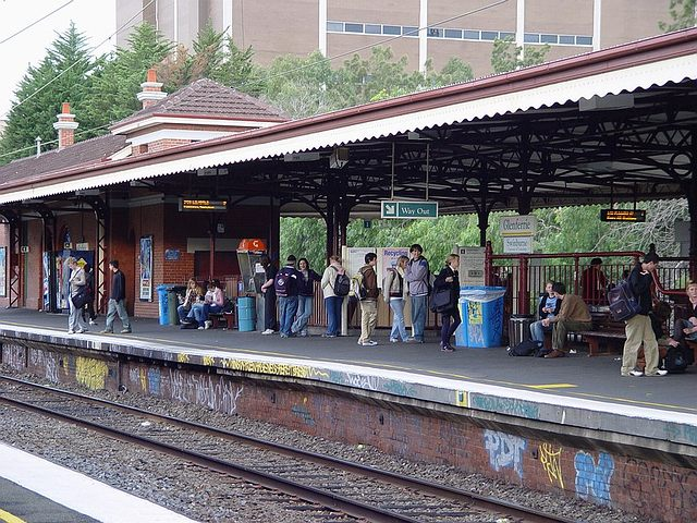 Melbourne's Glenferrie railway station with Swinburne University buildings in the background.